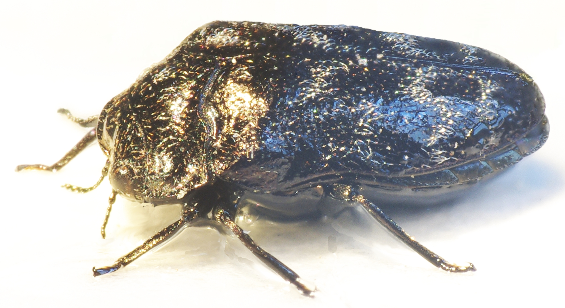 Side of Trachys minutus